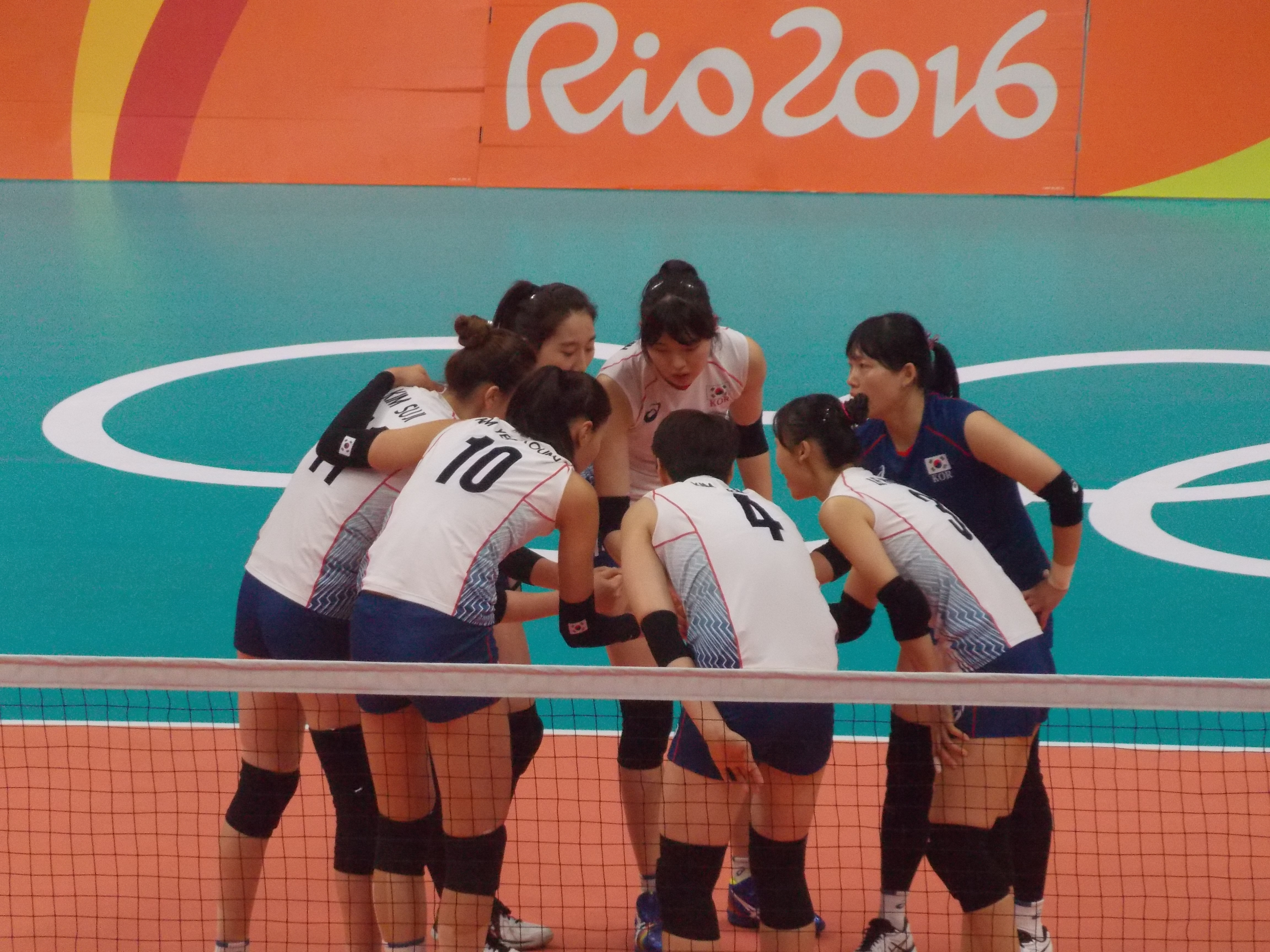 Volleyball at the 2016 Summer Olympics – Women's tournament: South Korea 1x3 Netherlands (19–25, 14–25, 25–23, 20–25).